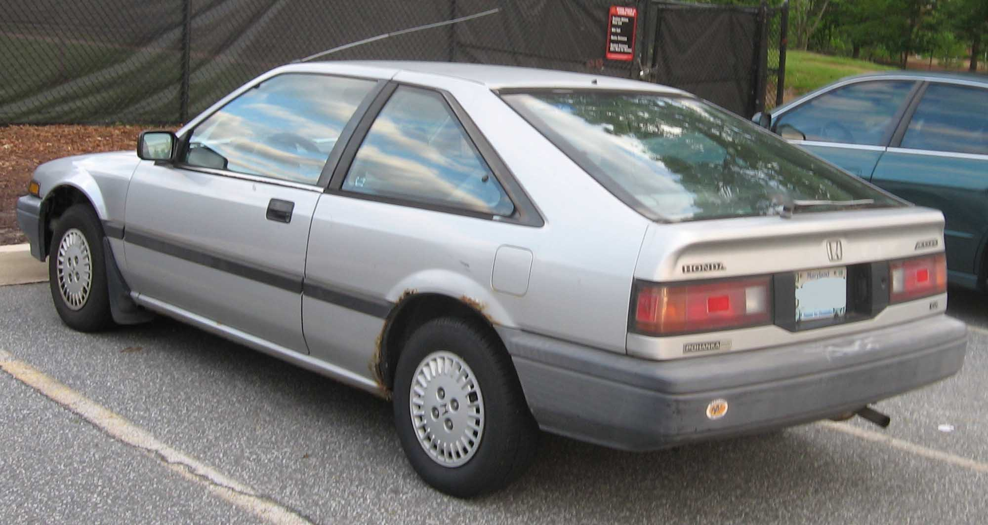 1986-1989 Honda Accord photographed in College Park, Maryland, USA.